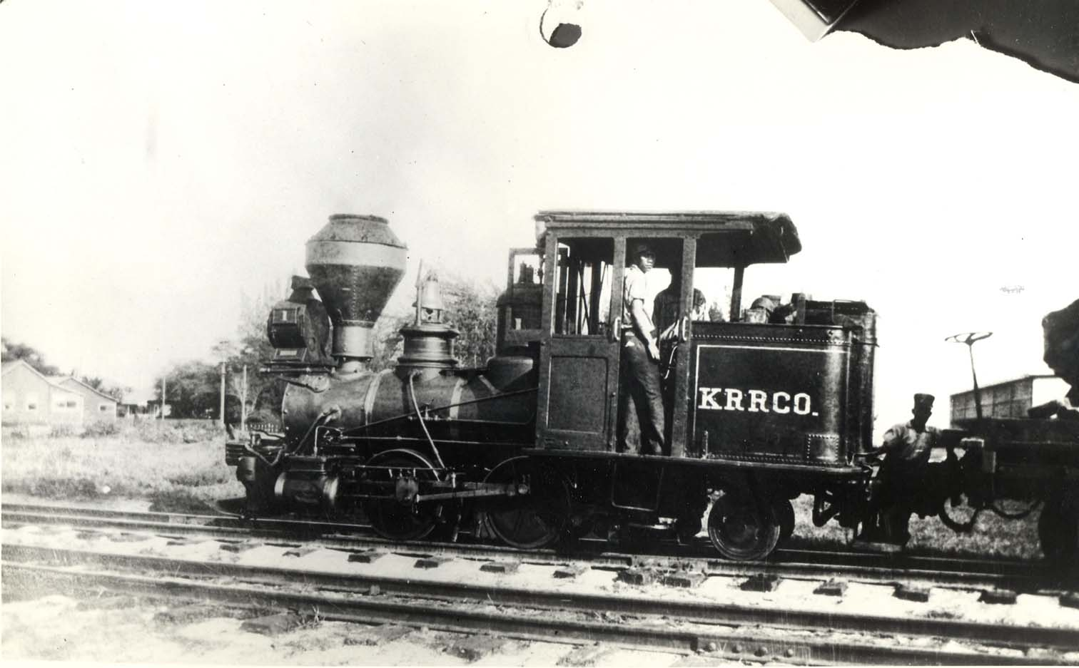 Kahului Railroad on Maui, Steam Locomotives, 1911